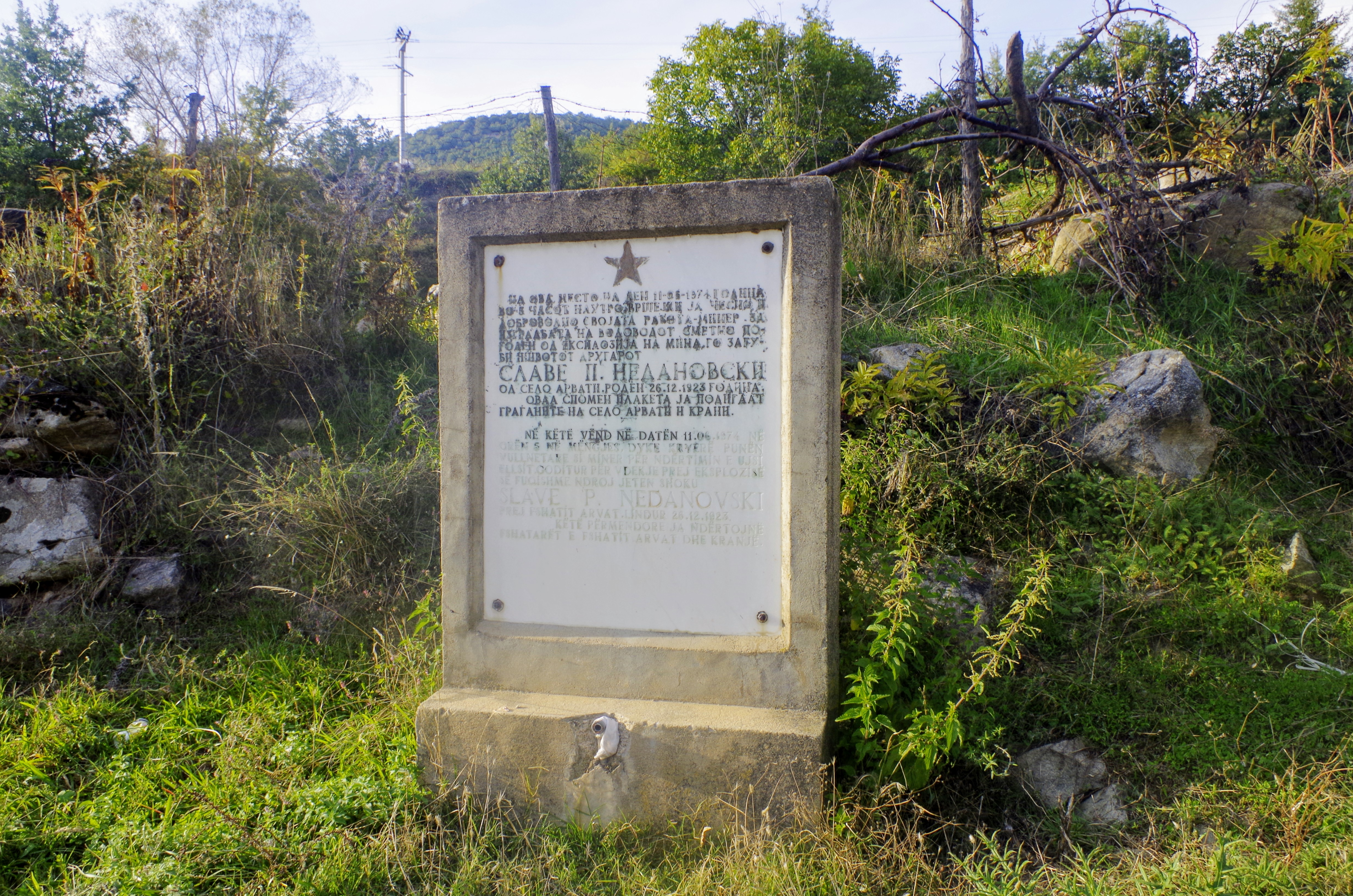 View of the monument in the village Arvati